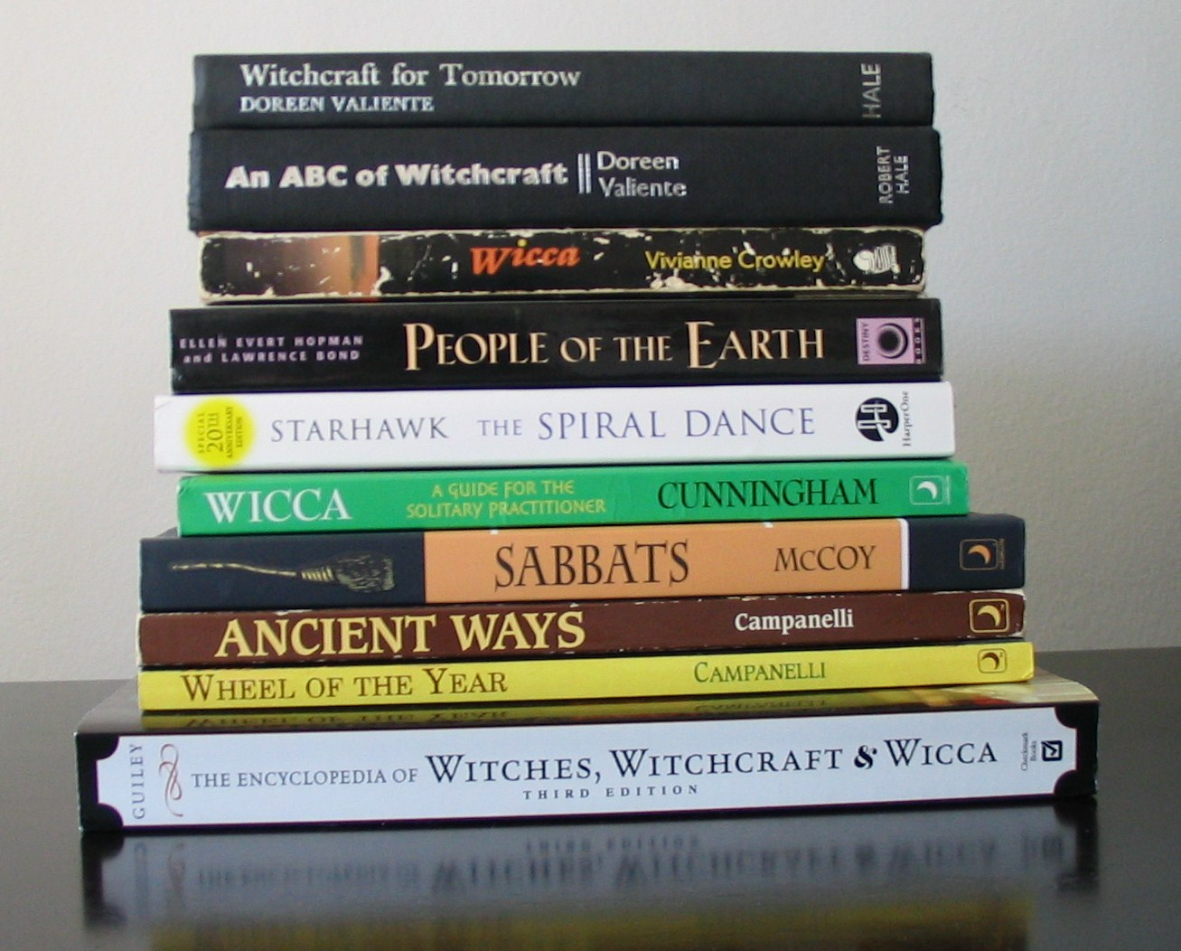 Pile of books about Wicca and contemporary Witchcraft